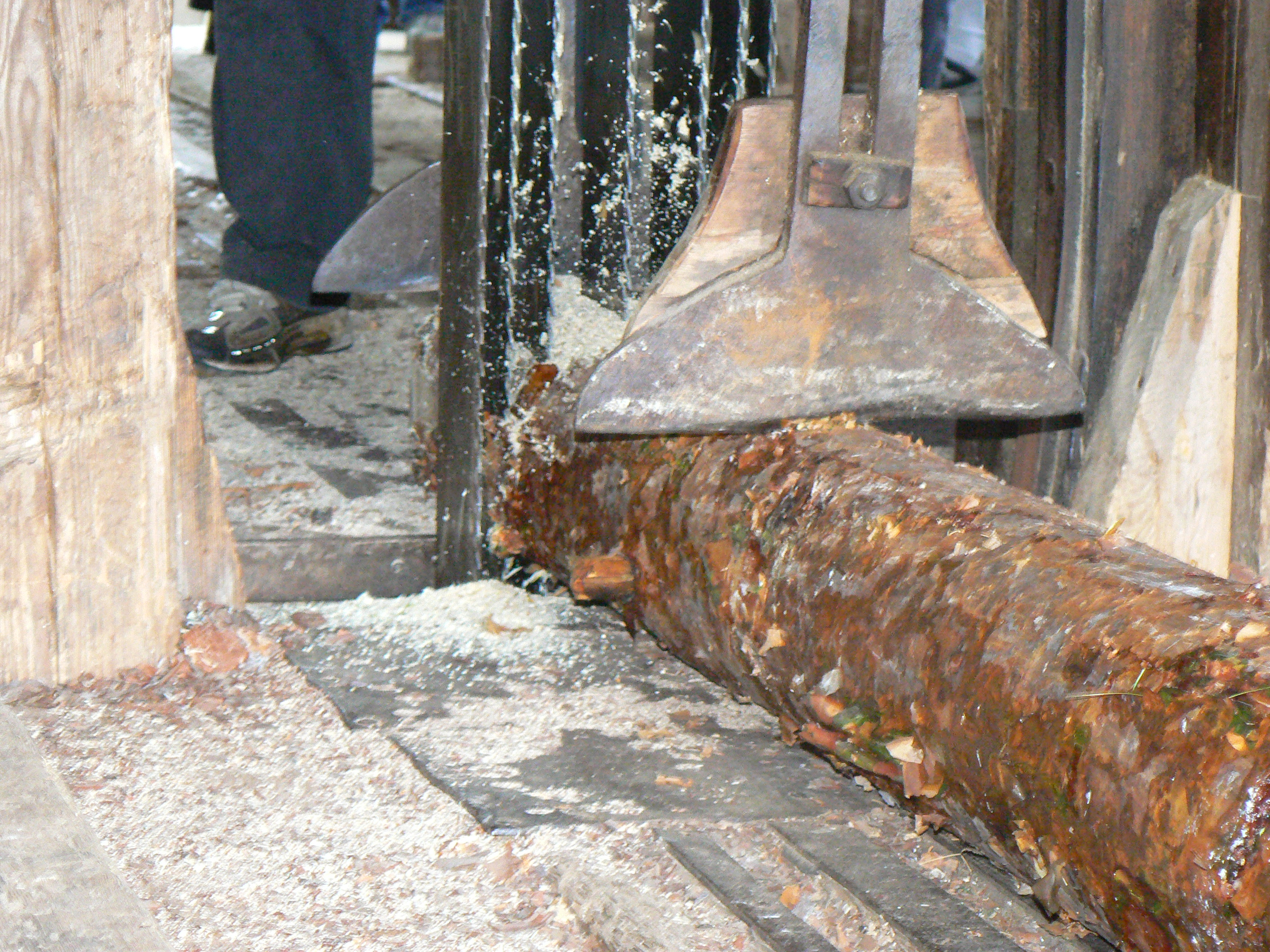 Wood sawing at the old hydropowered frame saw in Mångberg near Mora in Sweden.